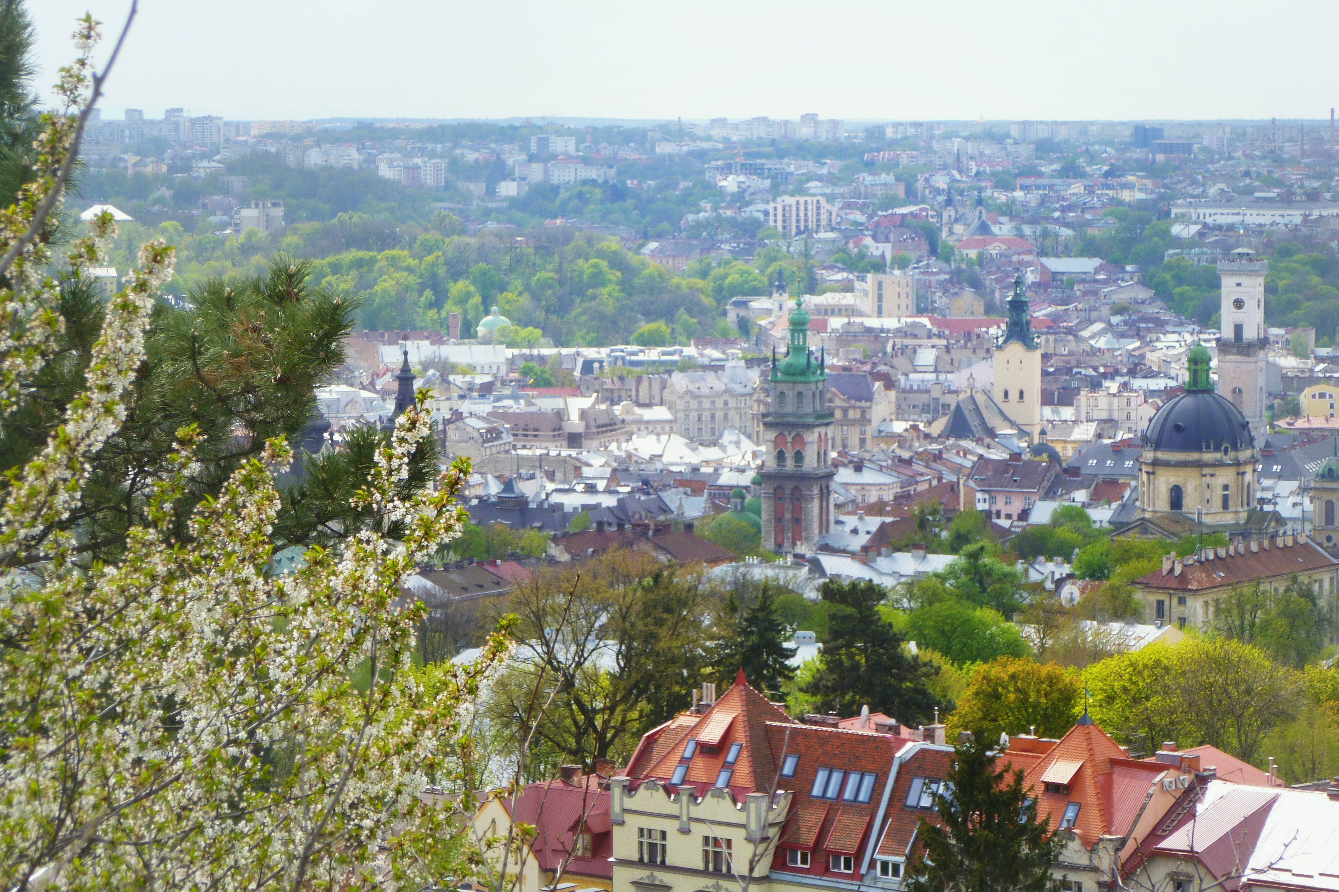 Lviv Old Town from High Castle Hill